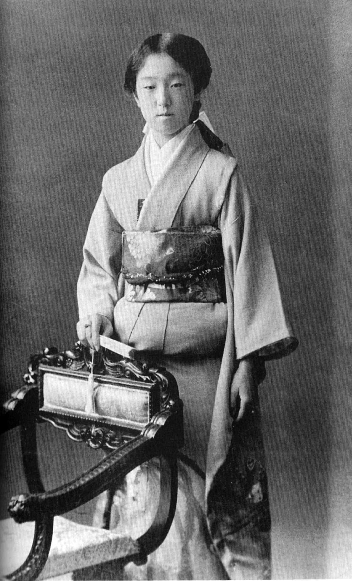 HIH Princess Kuni Nagako, future Empress Kōjun (1903-2000)